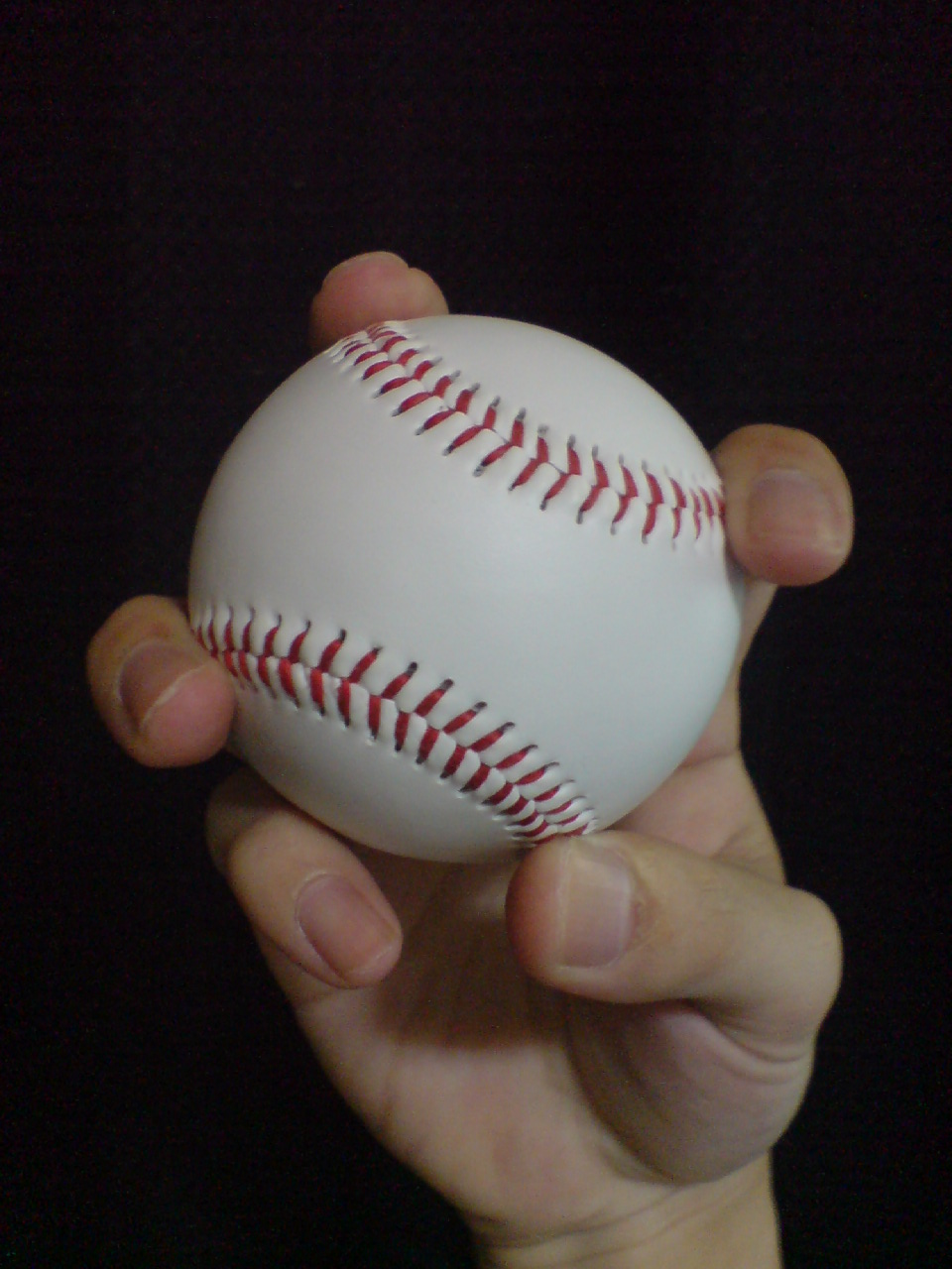 Sinker change